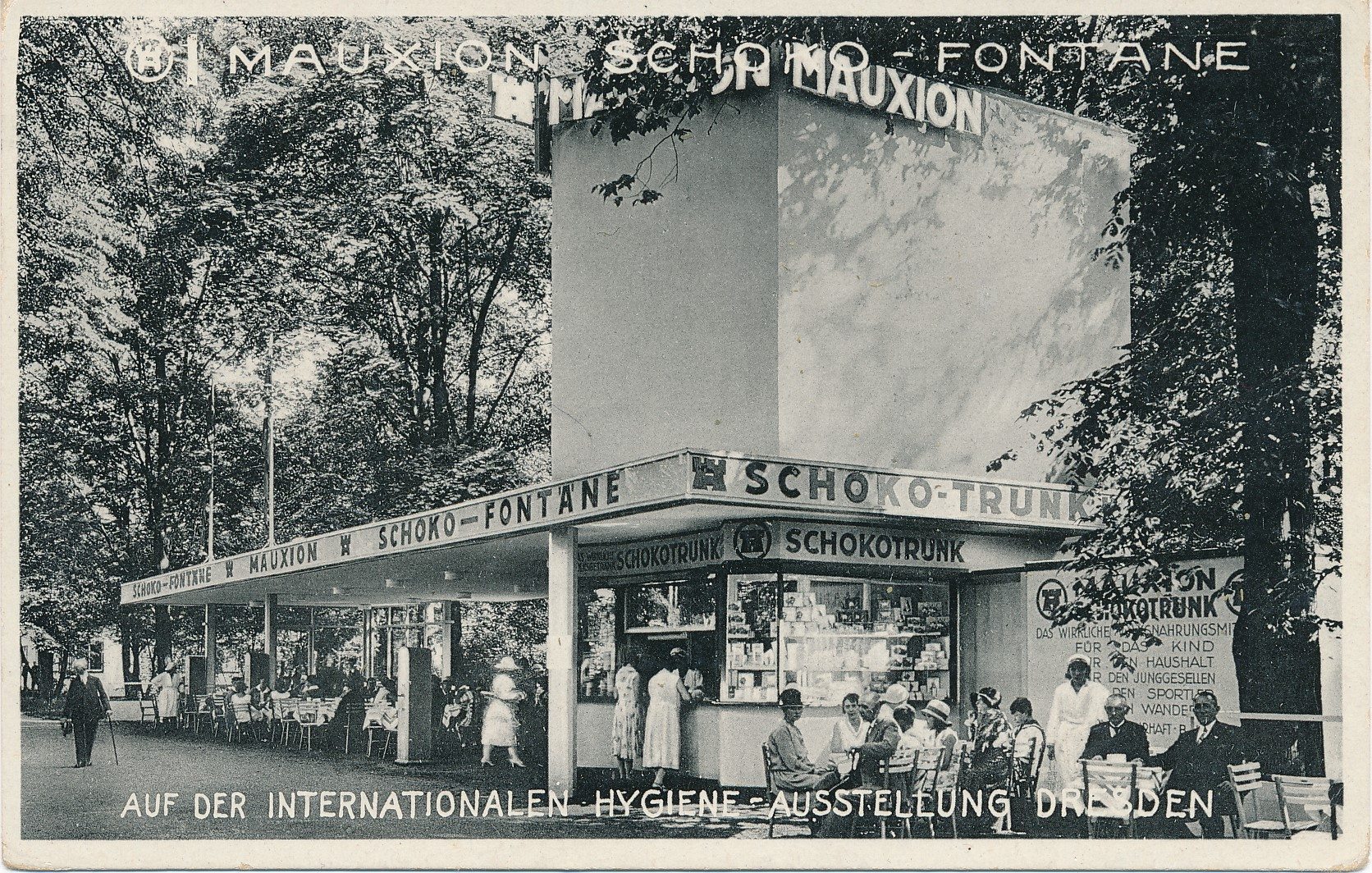 Postcard of a Mauxion sales stand at the1930 international hygiene exhibition in Dresden